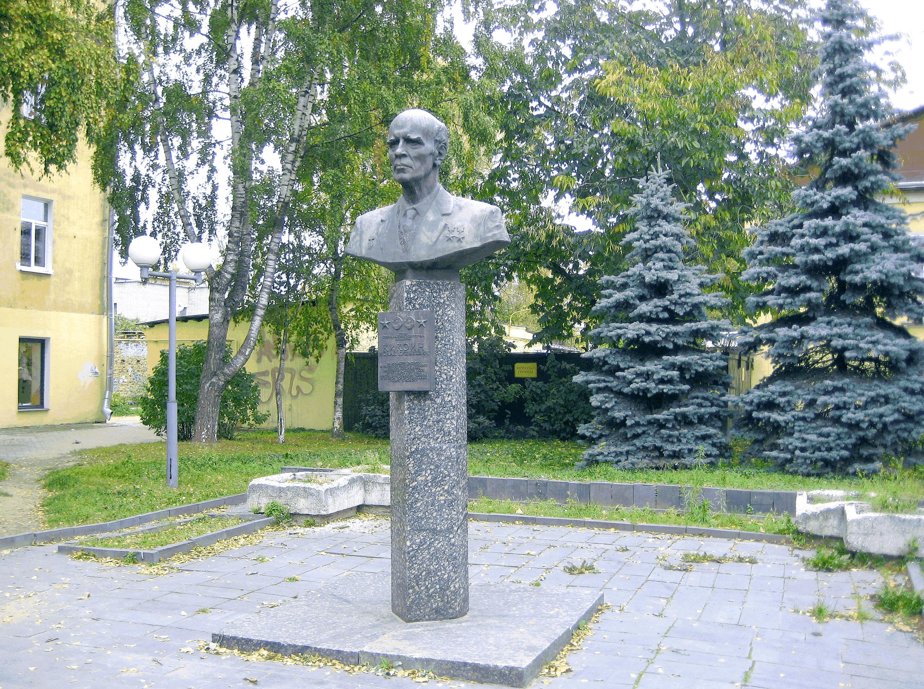 Bust of Academician I.K. Kikoina: Square, Oktyabrsky Prospect, 38. Pskov, Pskov Region